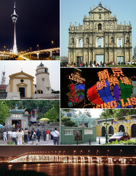 Montage of various Macau images